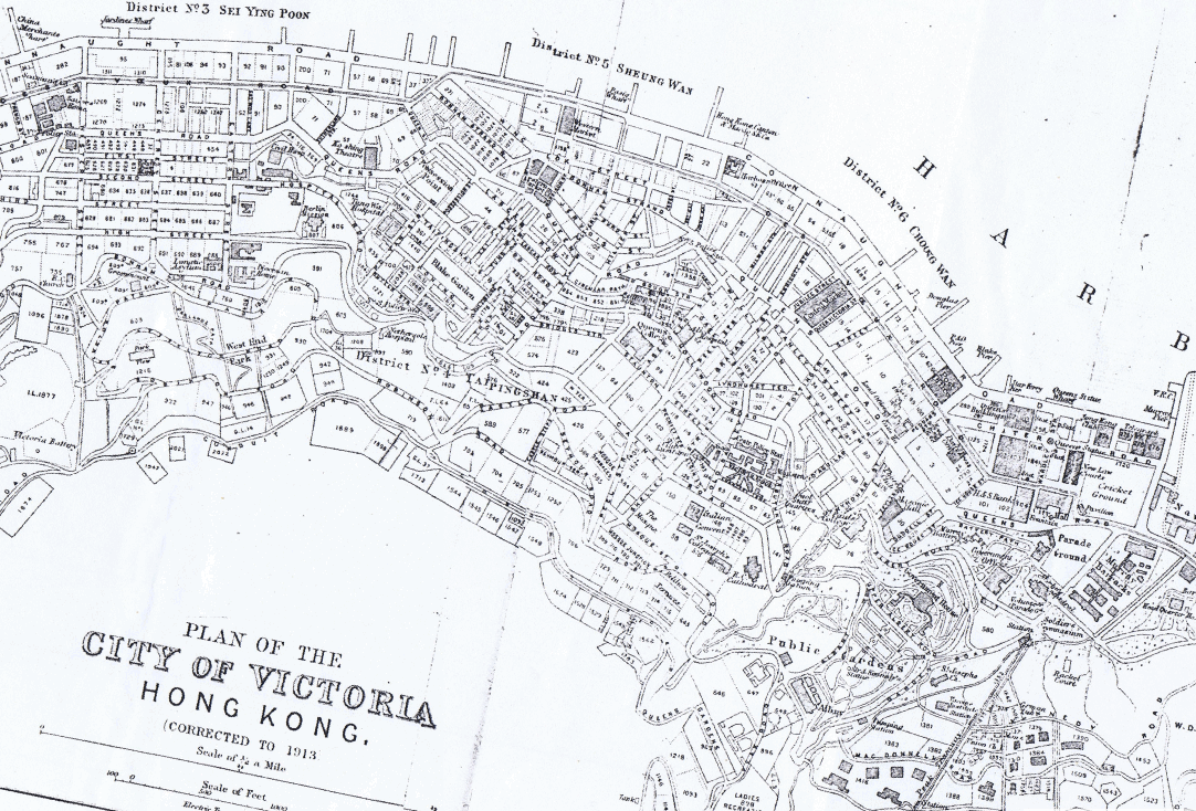 Tai Ping Shan labelled as District No.4 on a 1913 map of Hong Kong Island